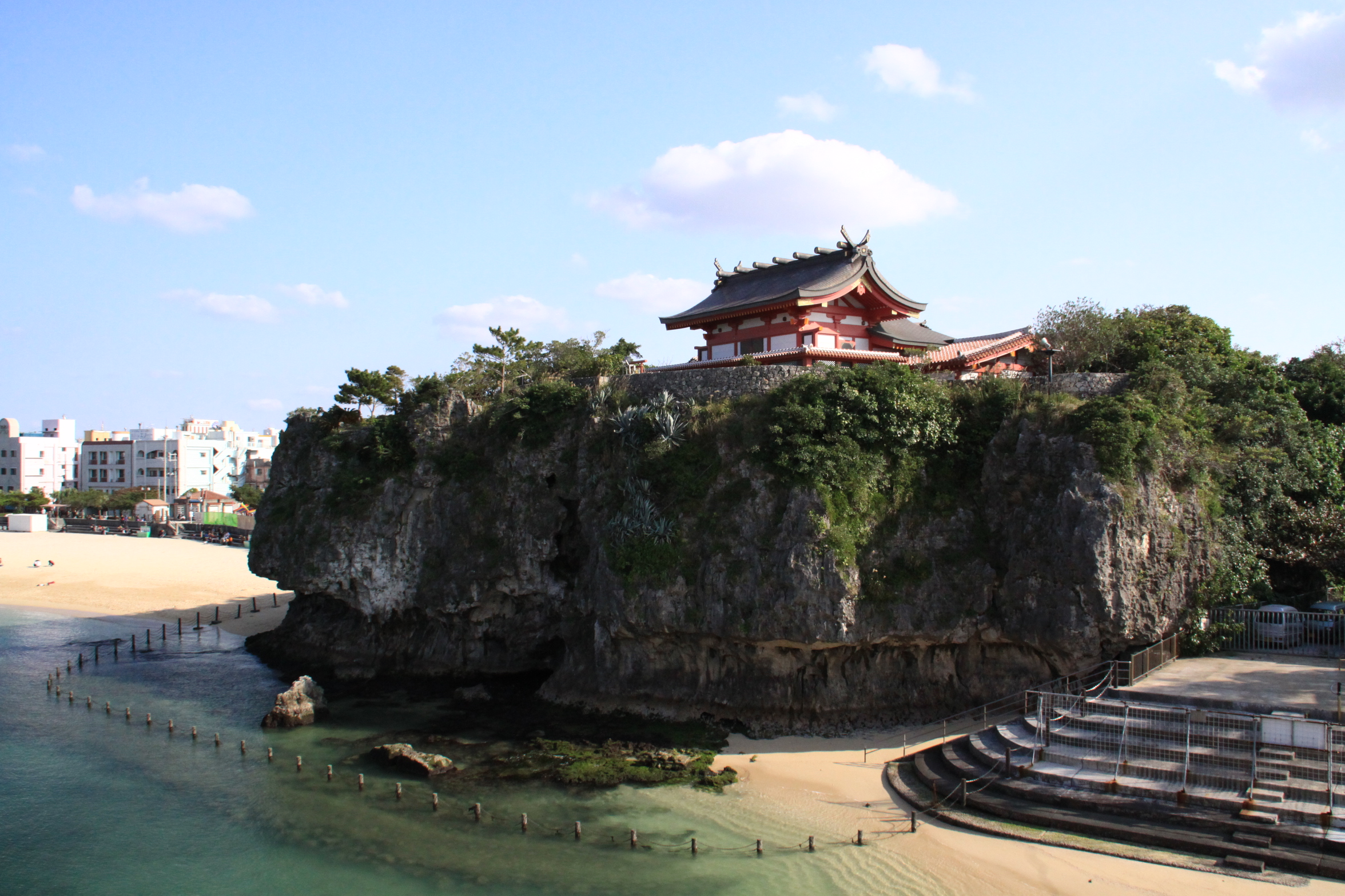 The distant view of Naminouegū Honden